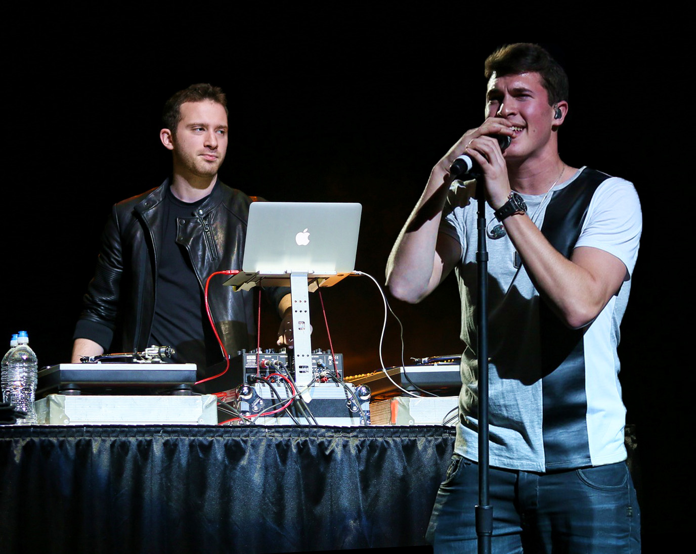 Resnick and Shapiro at B96's Chrismas For The Kids, December 12 2014